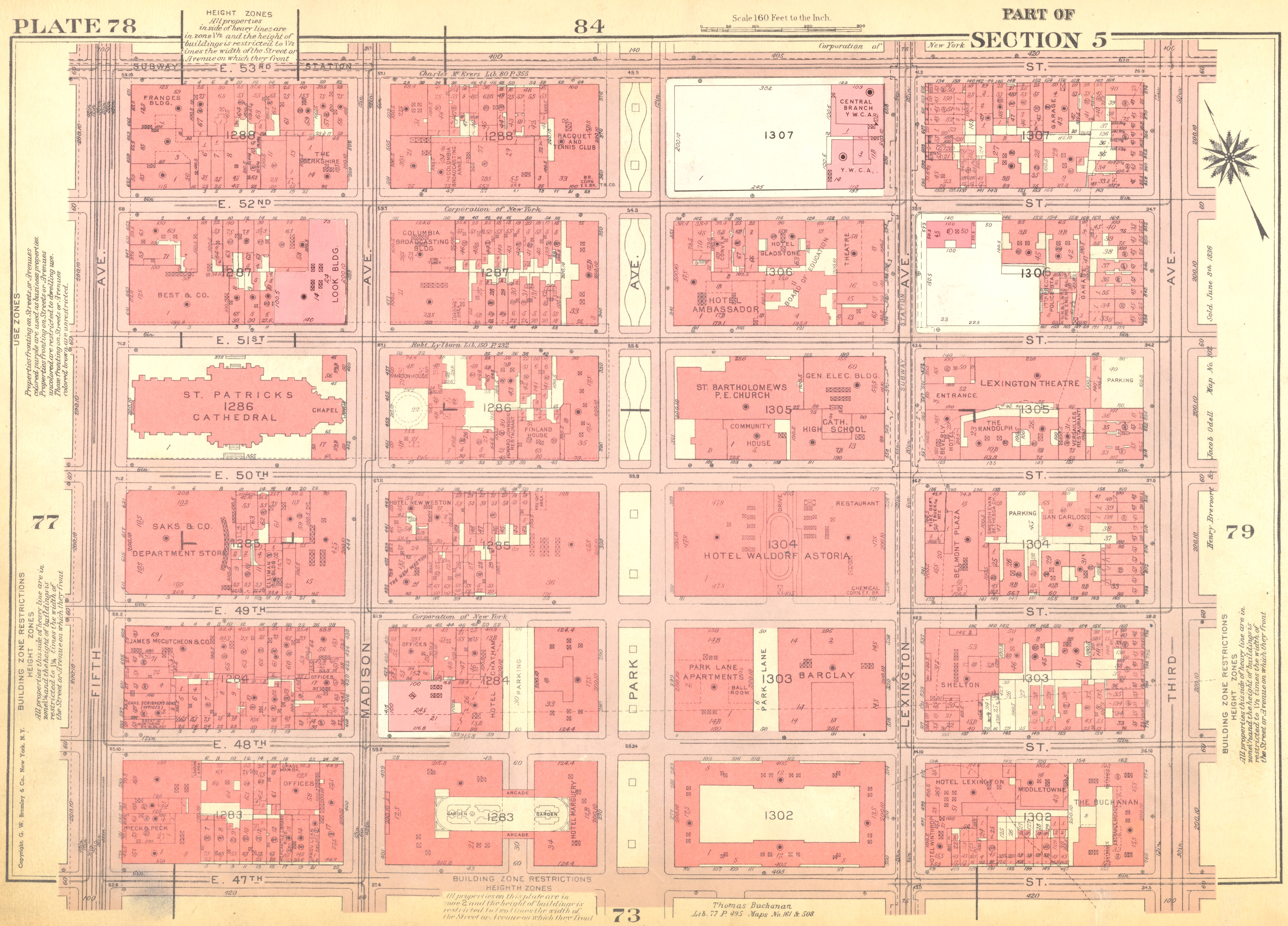 Plate 78 from: Manhattan Land Book of the City of New York. 1955. Desk and Library Edition. (New York: G. W. Bromley & Co., Incorporated) FOR KEY TO MAP SYMBOLS, CLICK HERE.